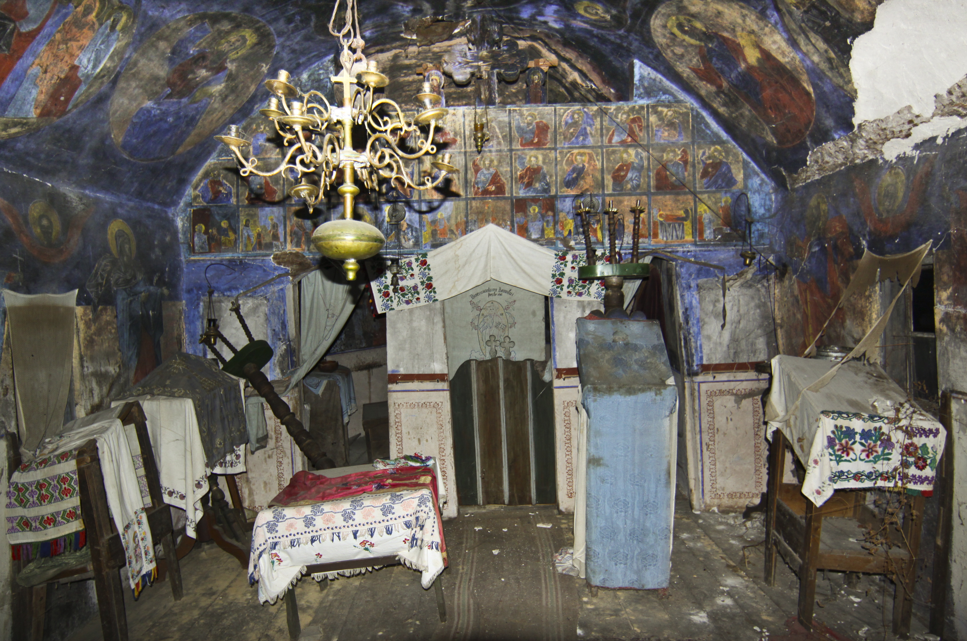 Borovineşti, Argeş county, Romania: the wooden church.